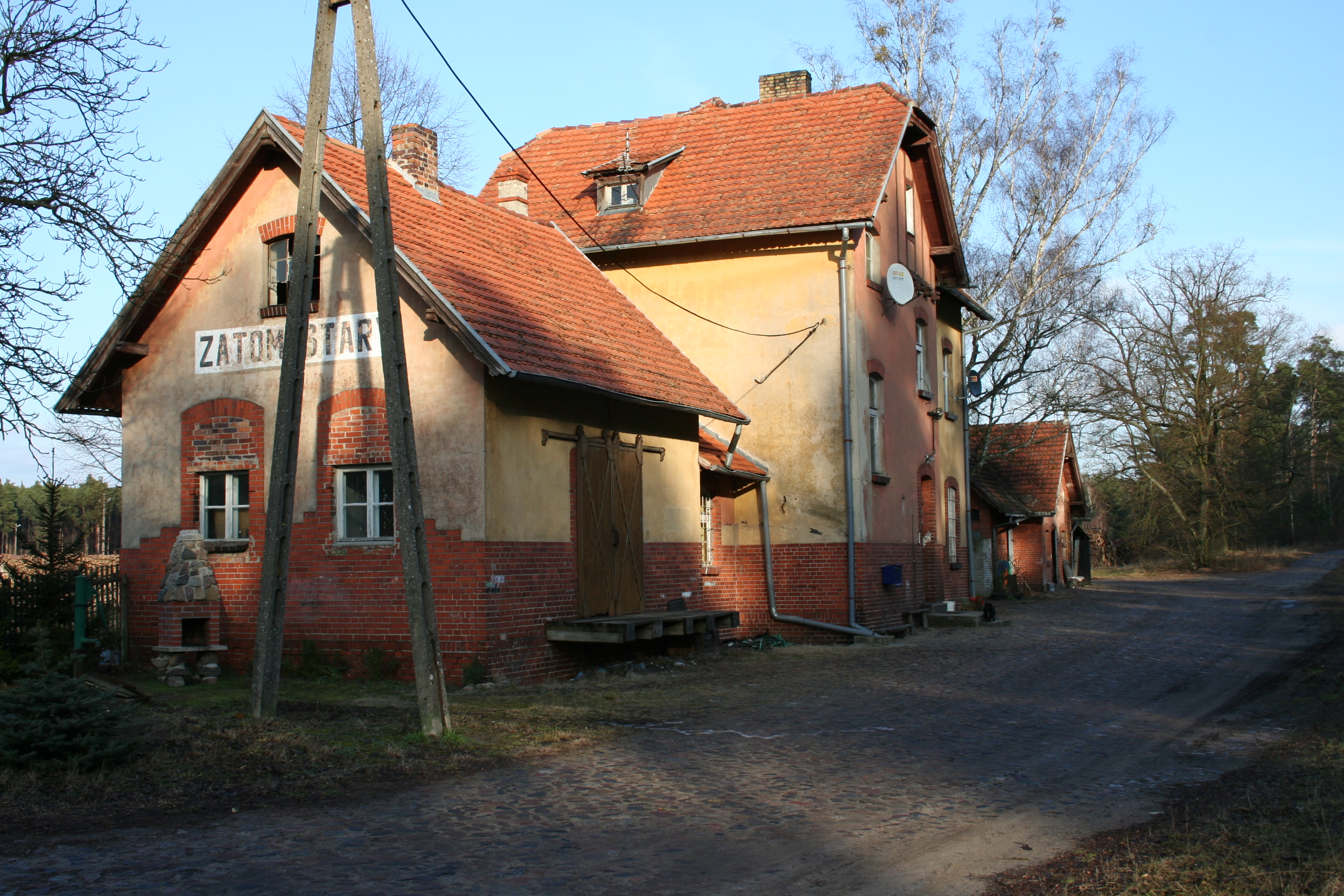 Zatom Stary - railway station